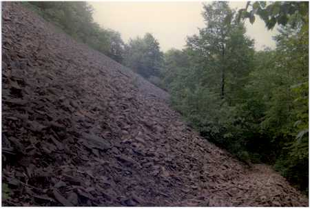 Talus slope on Bare Mountain, Hoyoke Range, Massachusetts. Metacomet-Monadnock Trail. Photo by Paul Gagnon, 1989. For Holyoke Range